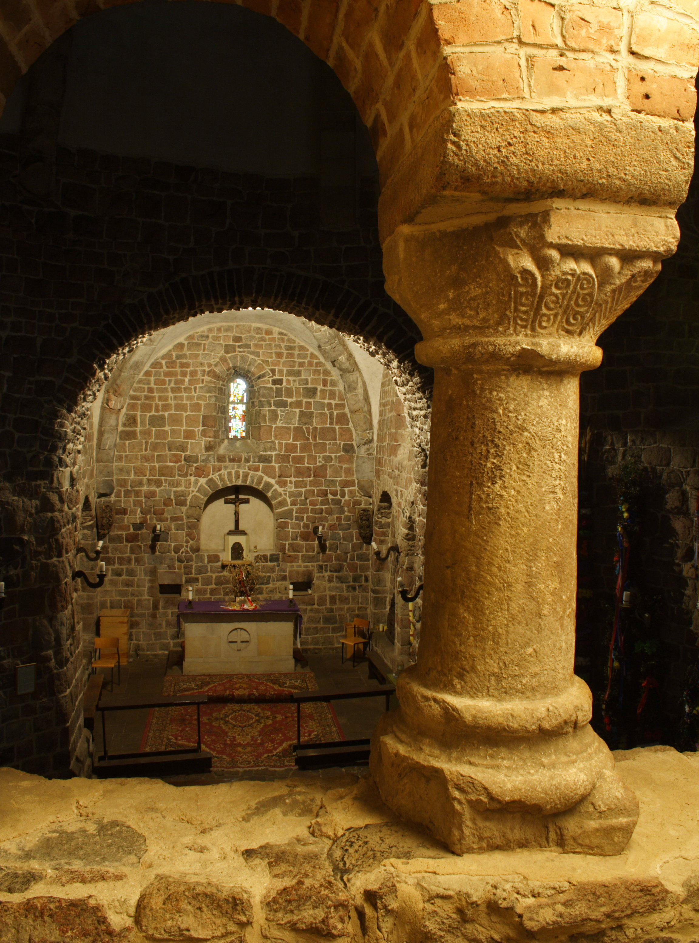 Strzelno, interior of St. Prokop's church